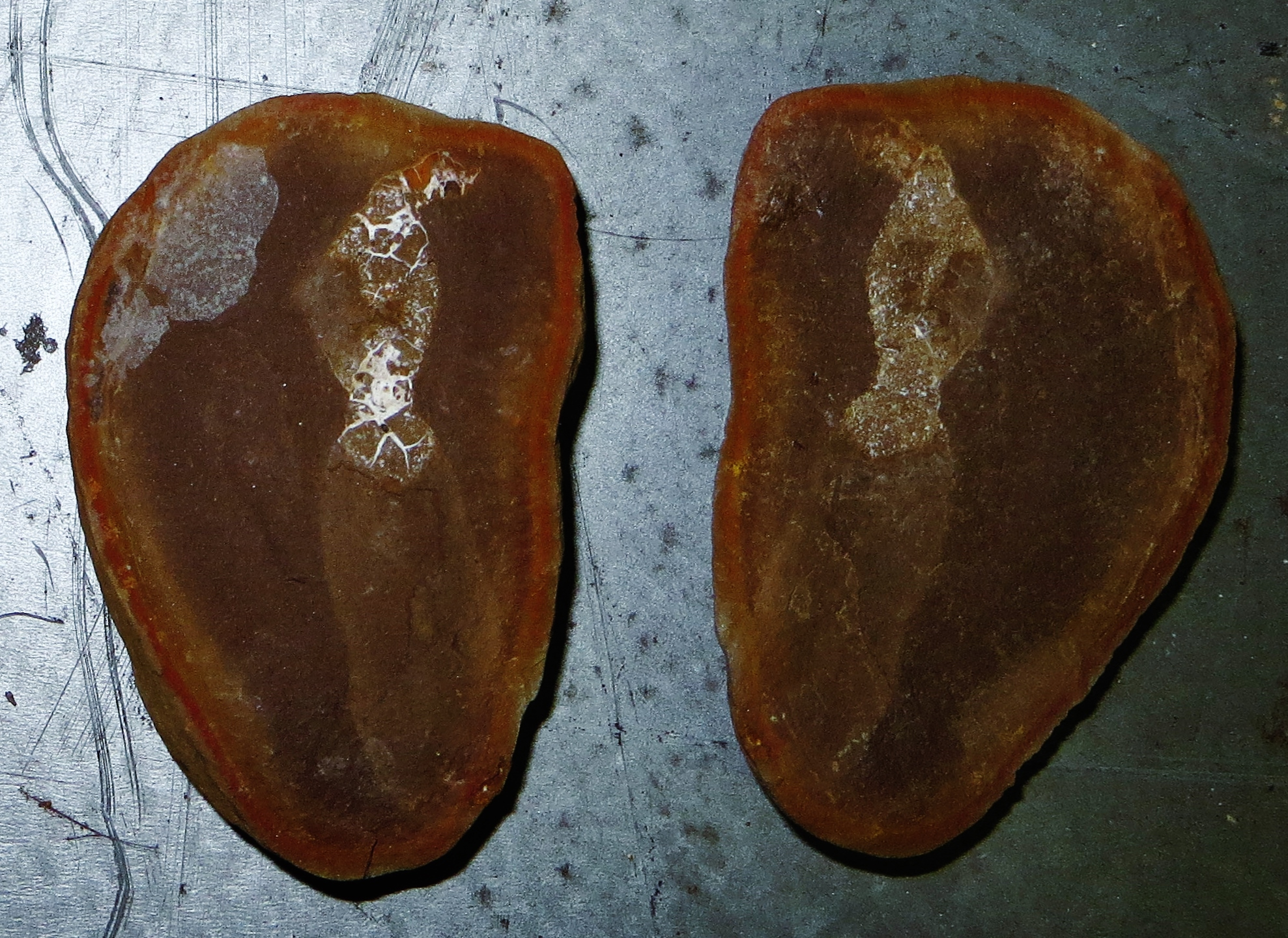 Fossil of an Mazoglossus (Enteropneusta, Mazon Creek fossil beds) - Took the picture at Museo di Storia Naturale di Milano